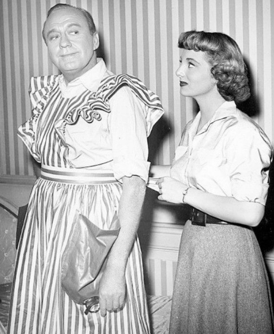 Photo of Jack Benny and his daughter, Joan, on the set of his television show.